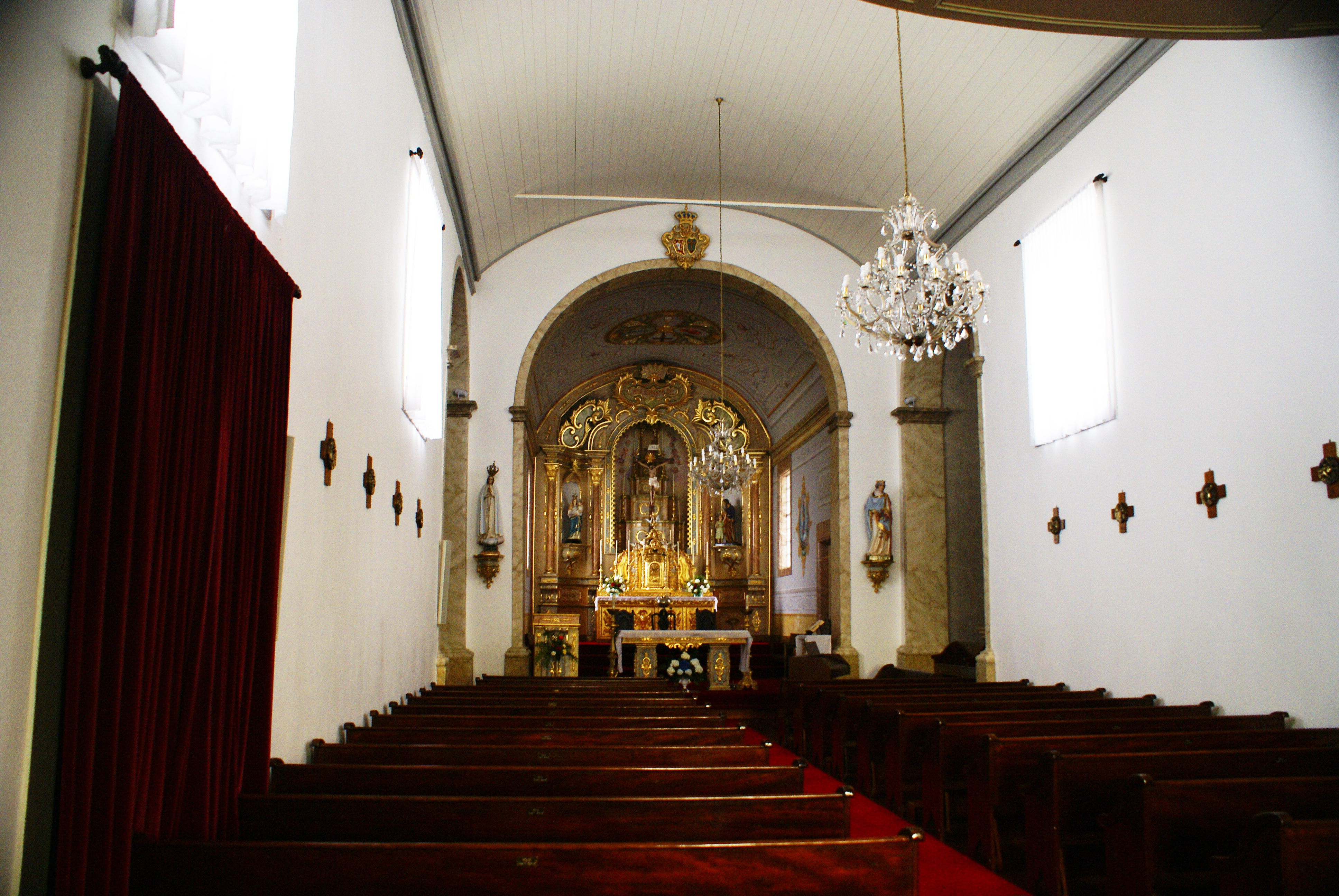 Igreja de Santa Cruz das Ribeiras, nave, concelho das Lajes do Pico, ilha do Pico, Açores, Portugal